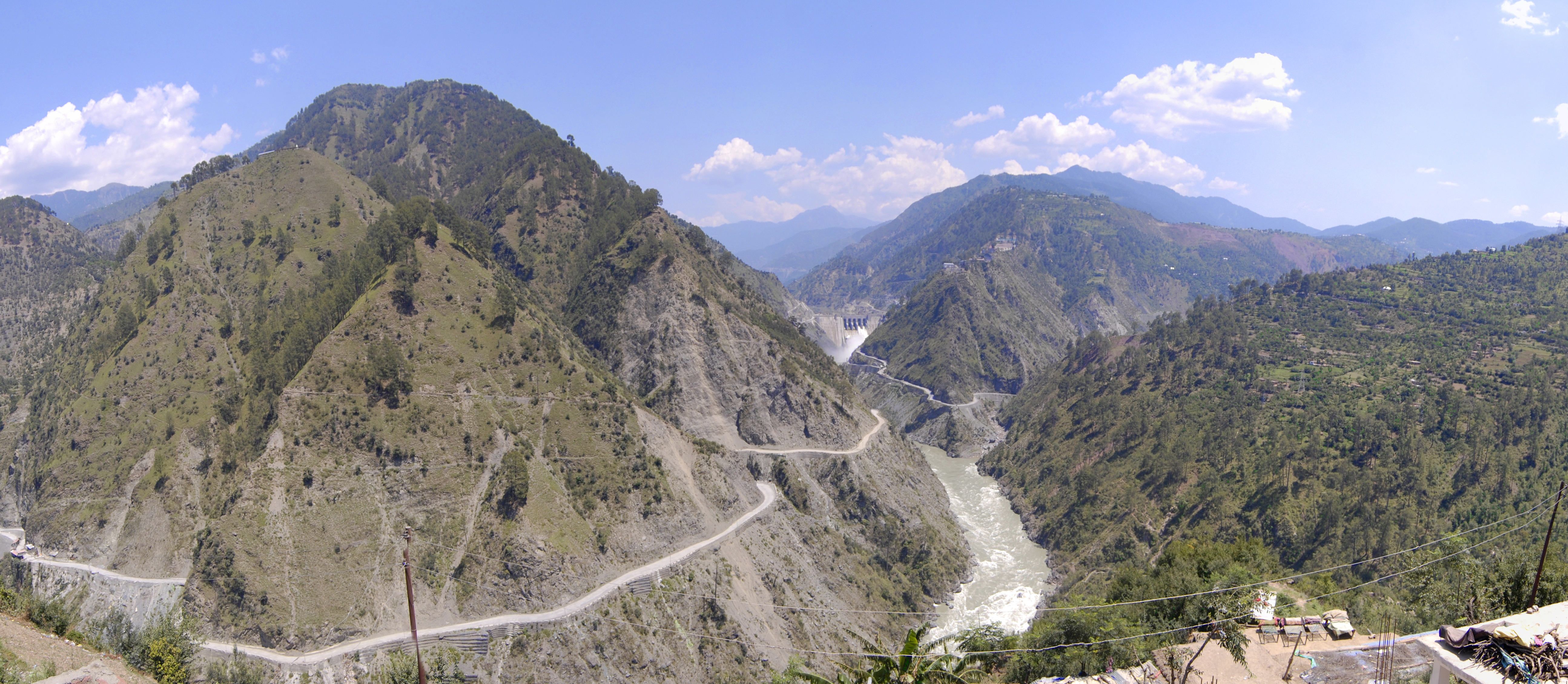 Baglihar Dam across Chenab river in Doba district of Jammu and Kashmir state in India